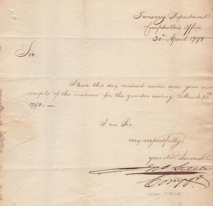 Letter from John Steele, Comptroller of the US Treasury acknowledging receipt of the accounts of customs dated 30th April, 1798